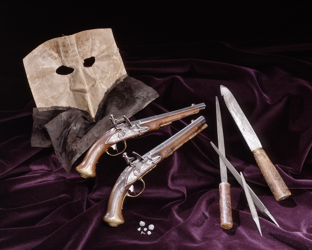 The mask worn by Anckarström to the masked ball, at which he shot Gustavus III. One can also se his pistols, the bullet and shrapnel with which it was loaded, and his hooked knife.